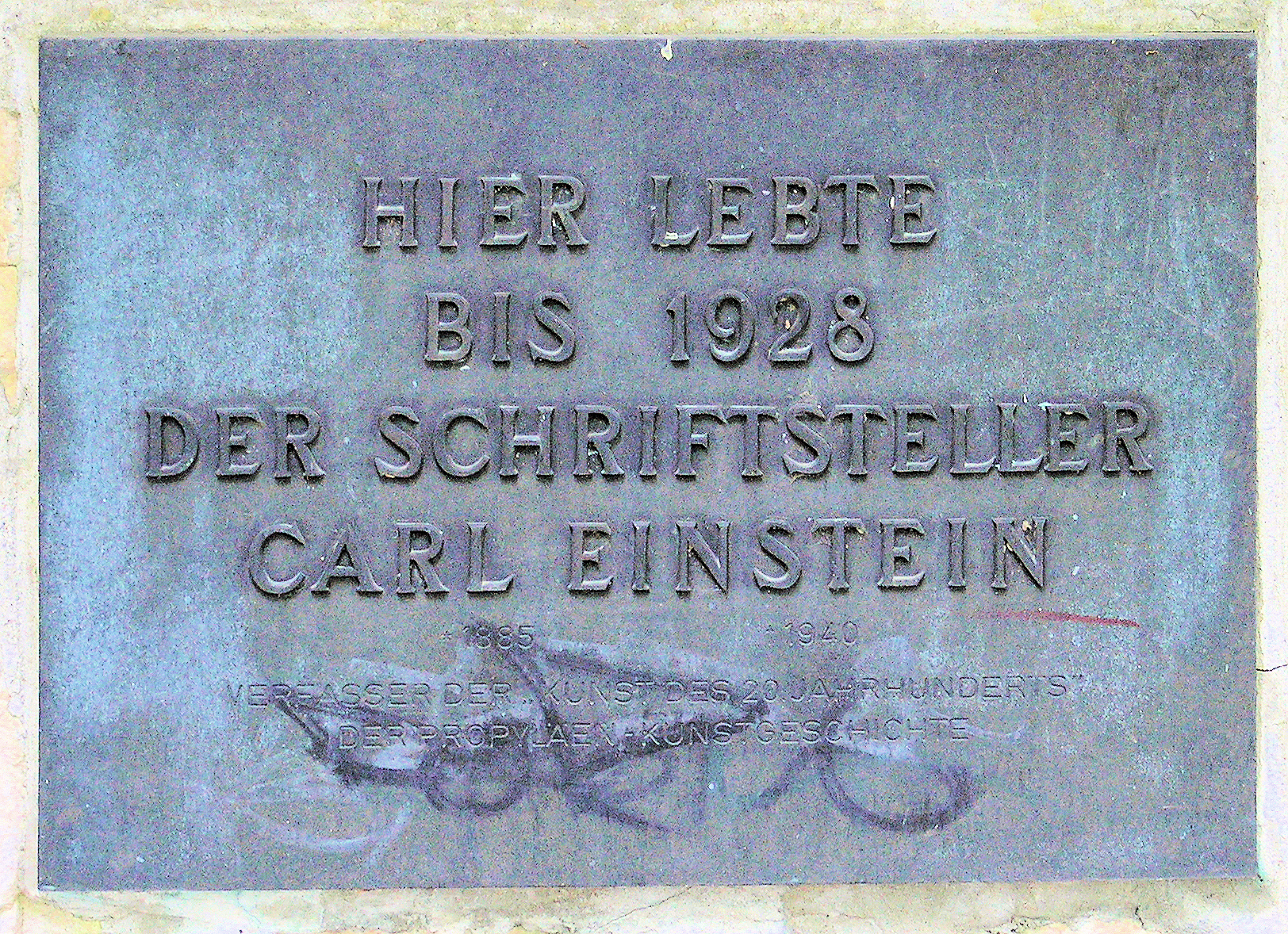 Memorial plaque, Carl Einstein, Zeltinger Straße 54, Berlin-Frohnau, Germany Koordinate:52°38′21″N 13°17′57″E / 52.63917°N 13.29917°E